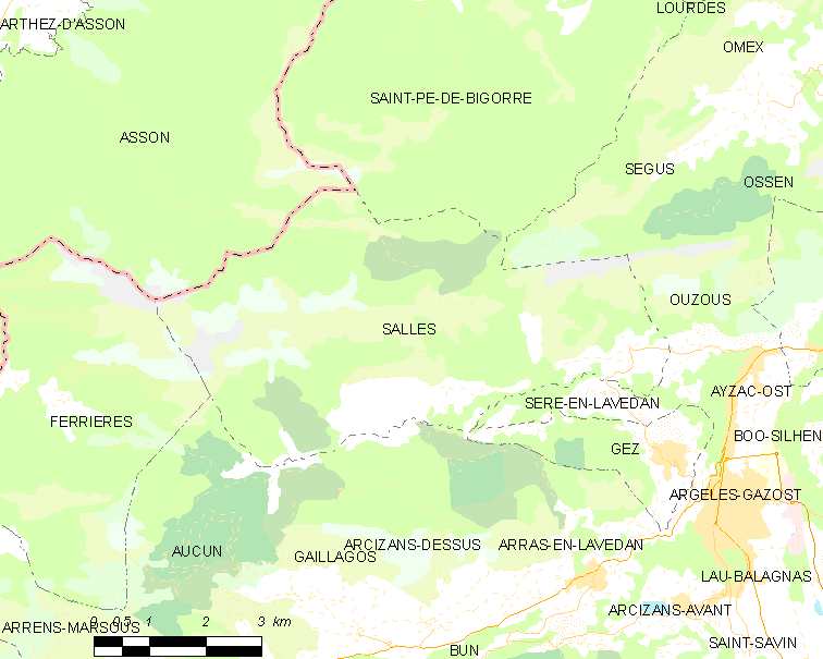 Map of French municipality